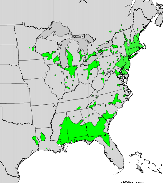 Range map of Toxicodendron vernix